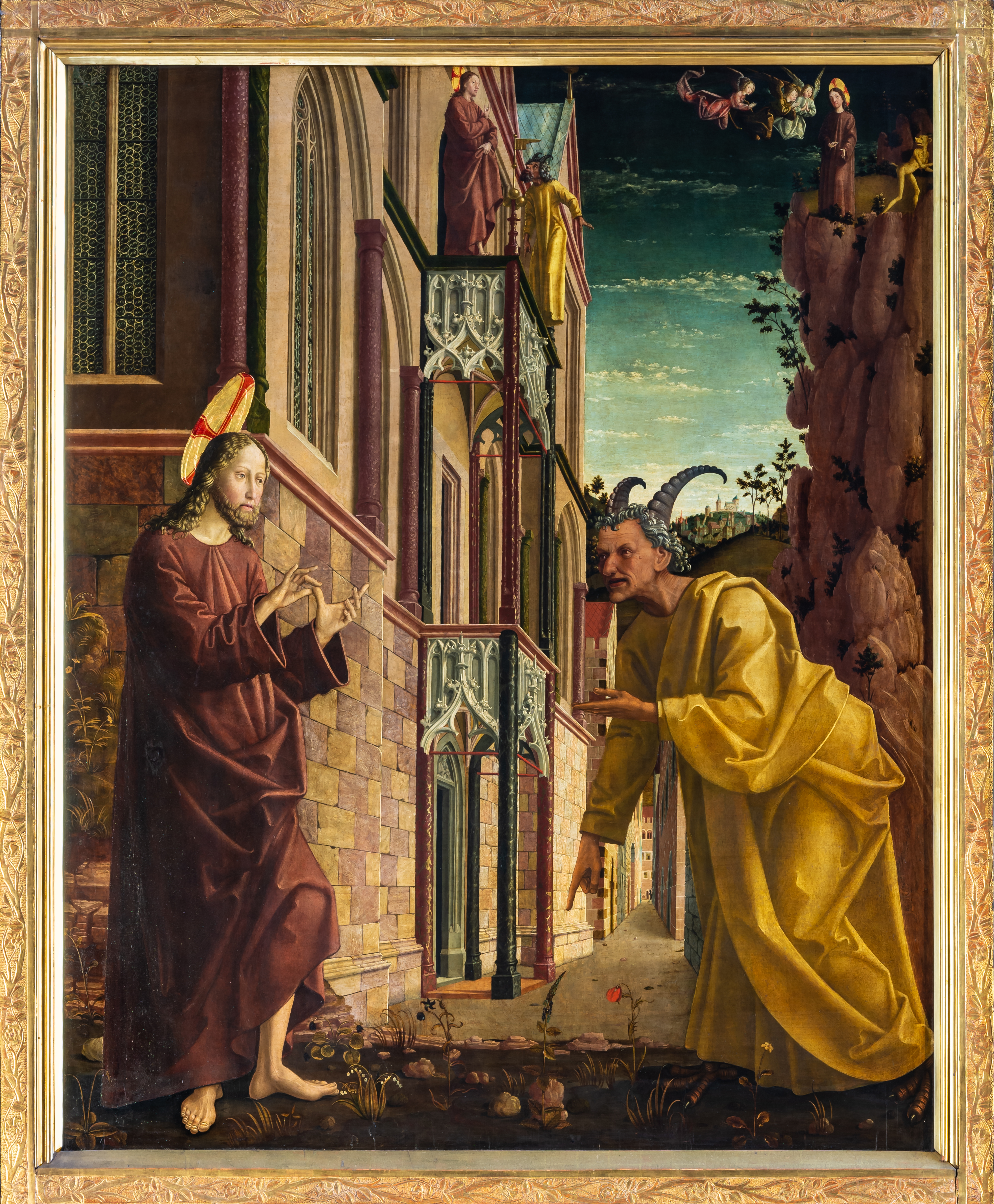 The Threefold Temptation of Christ at the St. Wolfgang Altarpiece of the Catholic parish- and pilgrimage church St. Wolfgang im Salzkammergut, Upper Austria. Michael Pacher, 1471–79, set up in 1481.